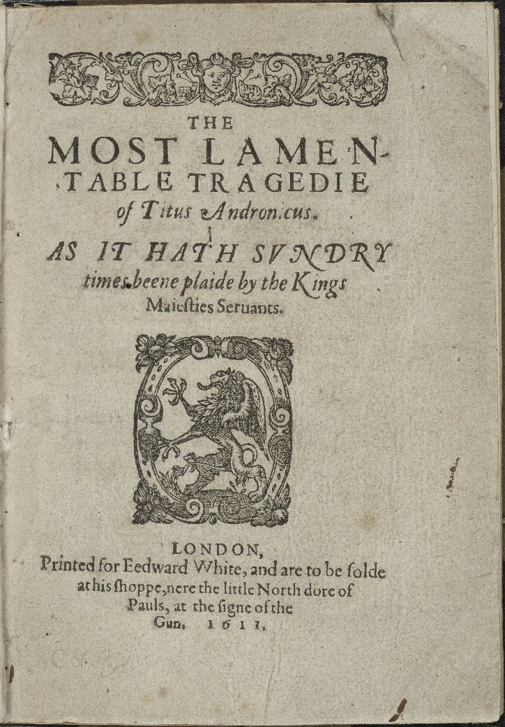 Quarto title page for Q3 of Titus Andronicus (1611) (darkness of image accurately reflects the color of the artifact)